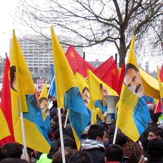 Kurdistan Workers Party supporters in London.